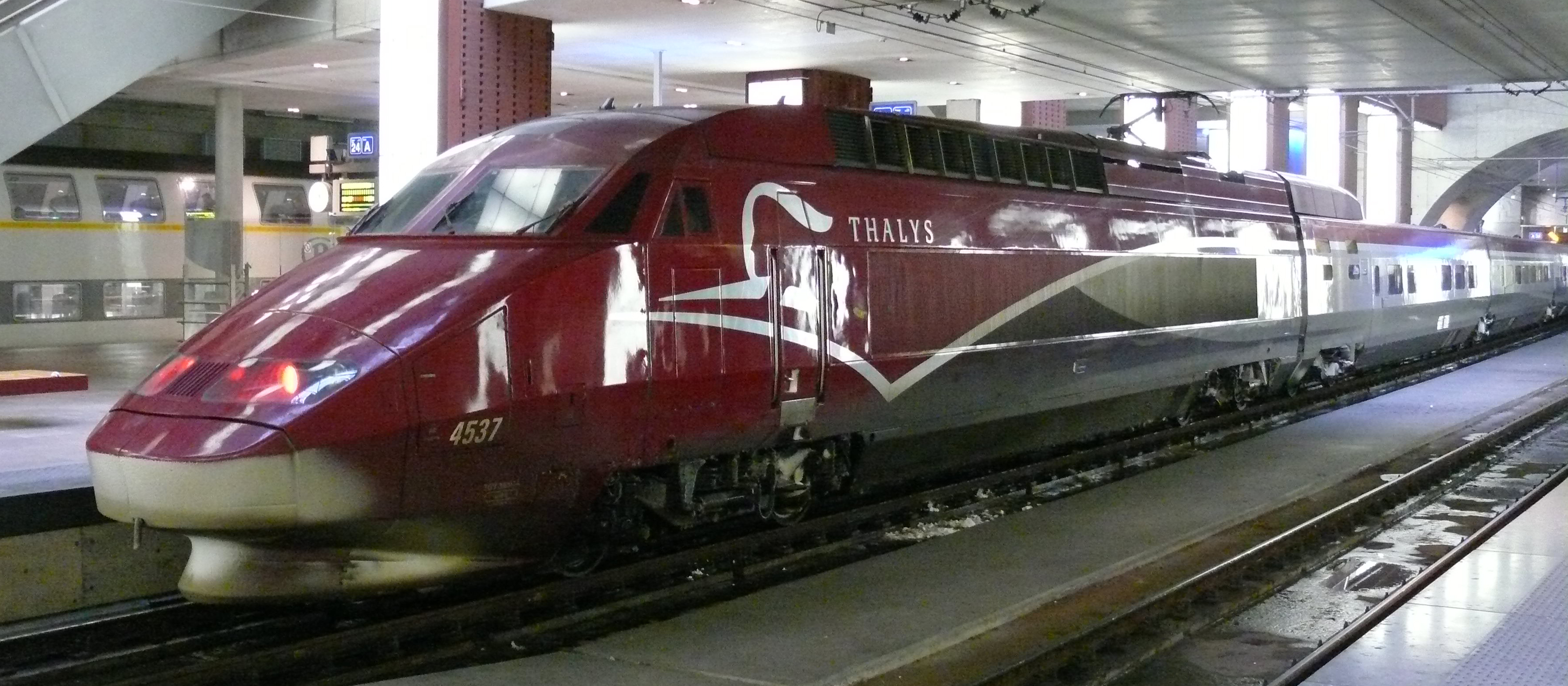 Thalys PBA 4537 on track 23 (level -2) in Antwerp Central Station